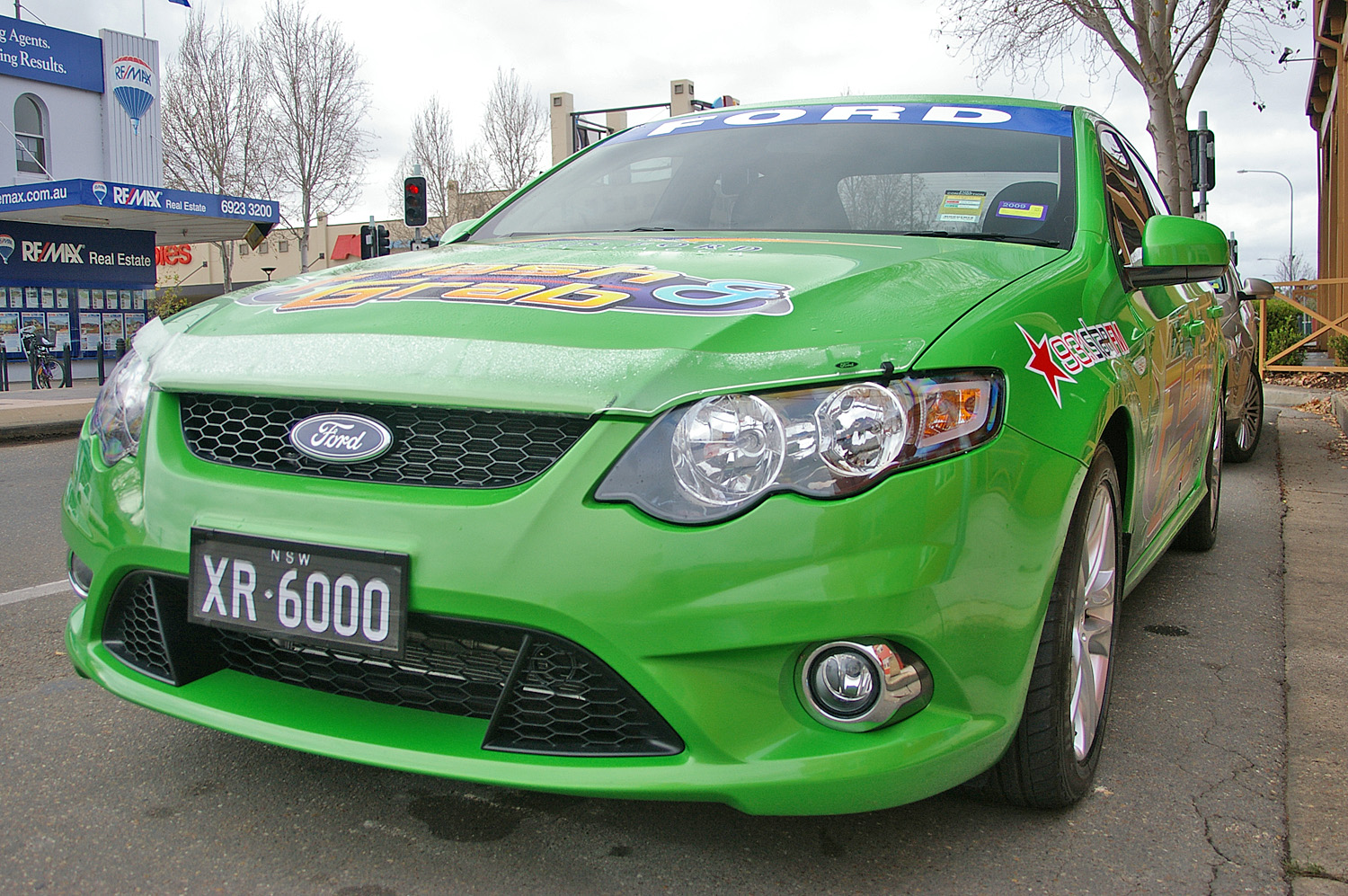 Ford Falcon FG XR6